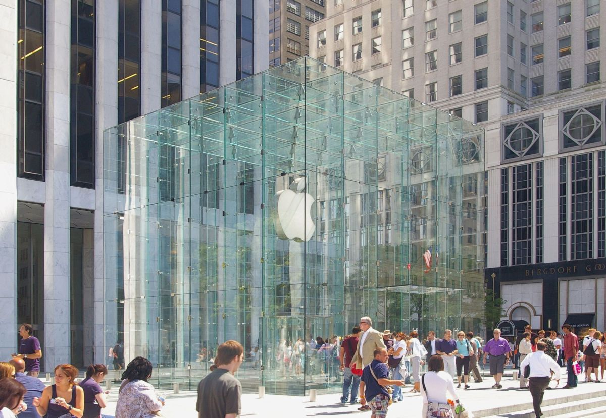 Apple-store New York City